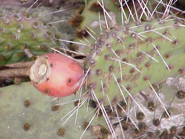 Species: Opuntia phaeacantha Family: Cactaceae Image No. 1